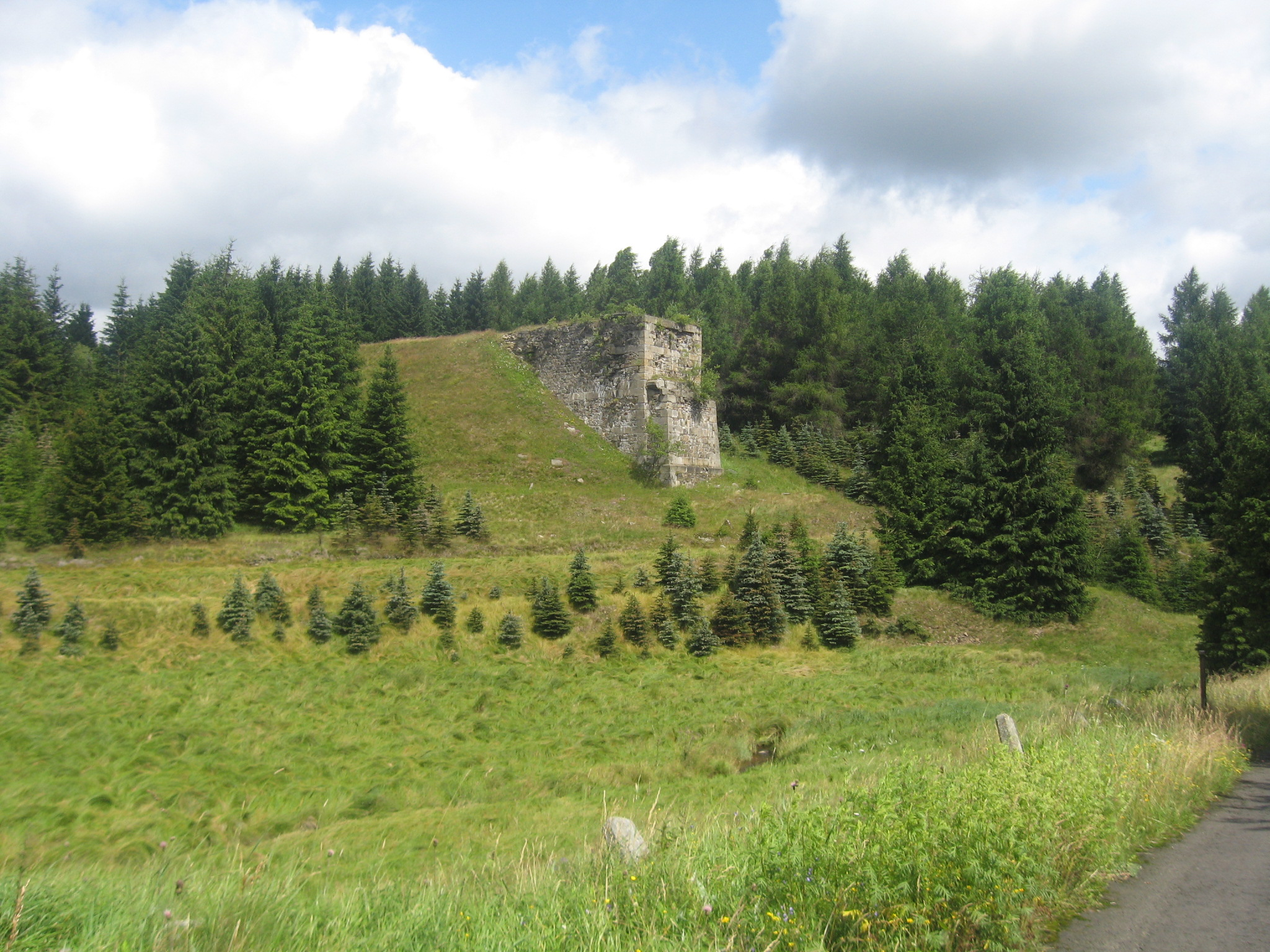 Rest of Railway Viaduct near Hora Svatého Šebestiána (Czech Republic)